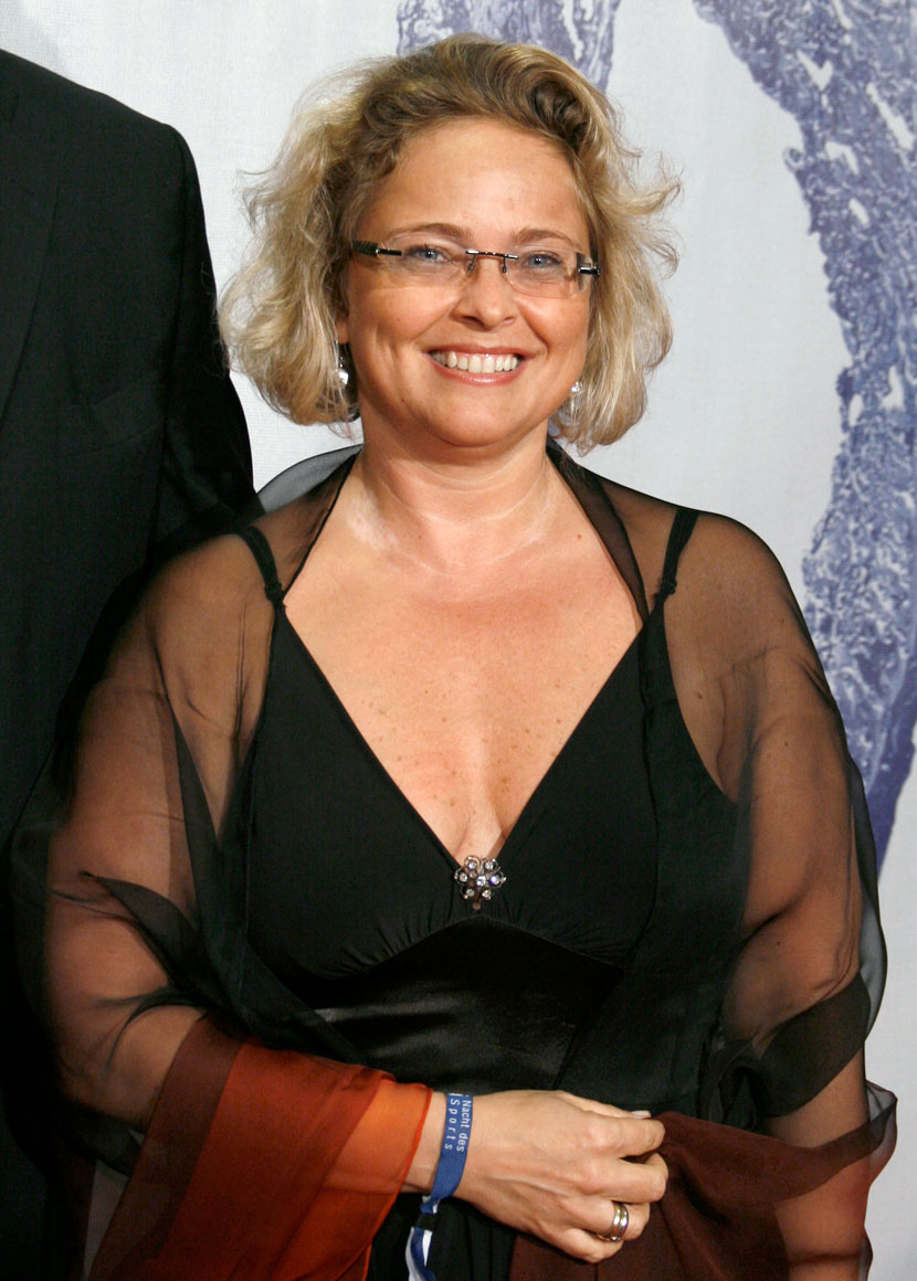 Claudia Bandion-Ortner at the award show for the Austrian Sportspersonalities of the year 2009.